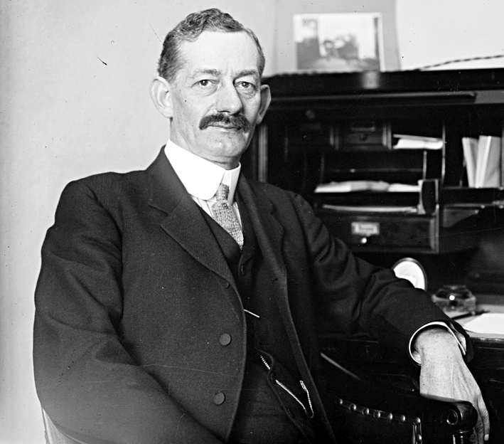 Robert N. Page, US Representative from North Carolina